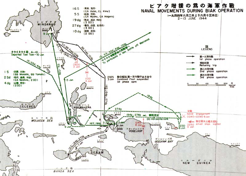 Japansese Naval Movements During Biak Operation, 2-13 June 1944, also known as Operation Kon